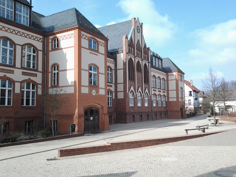 Friedrich Schiller Primary School (Berlin-Mahlsdorf)